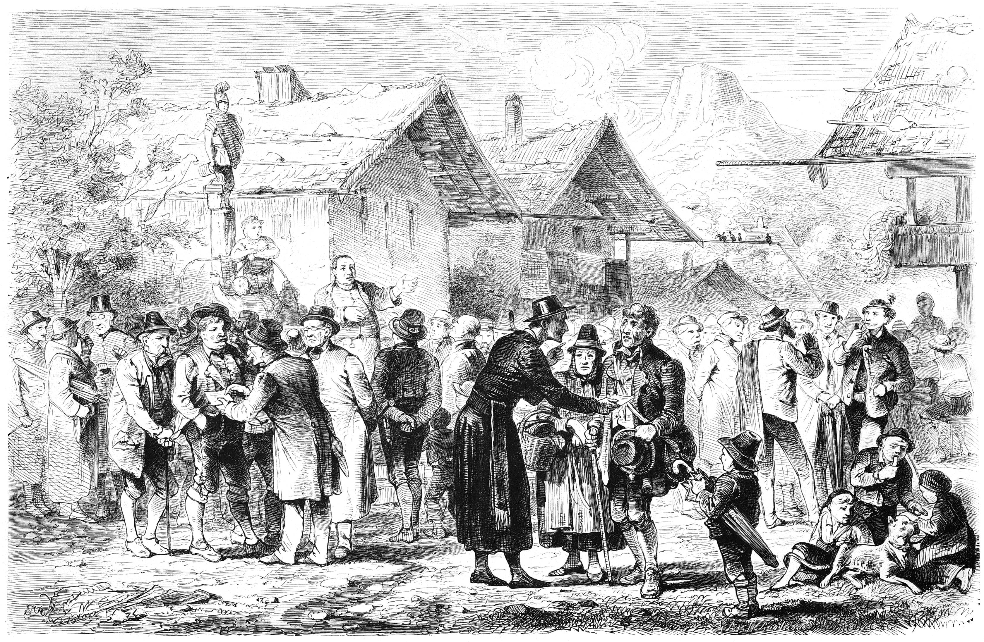 caption: "Ein Wahltag im bairischen Gebirge. Nach der Natur aufgenommen von Julius Nörr in München."